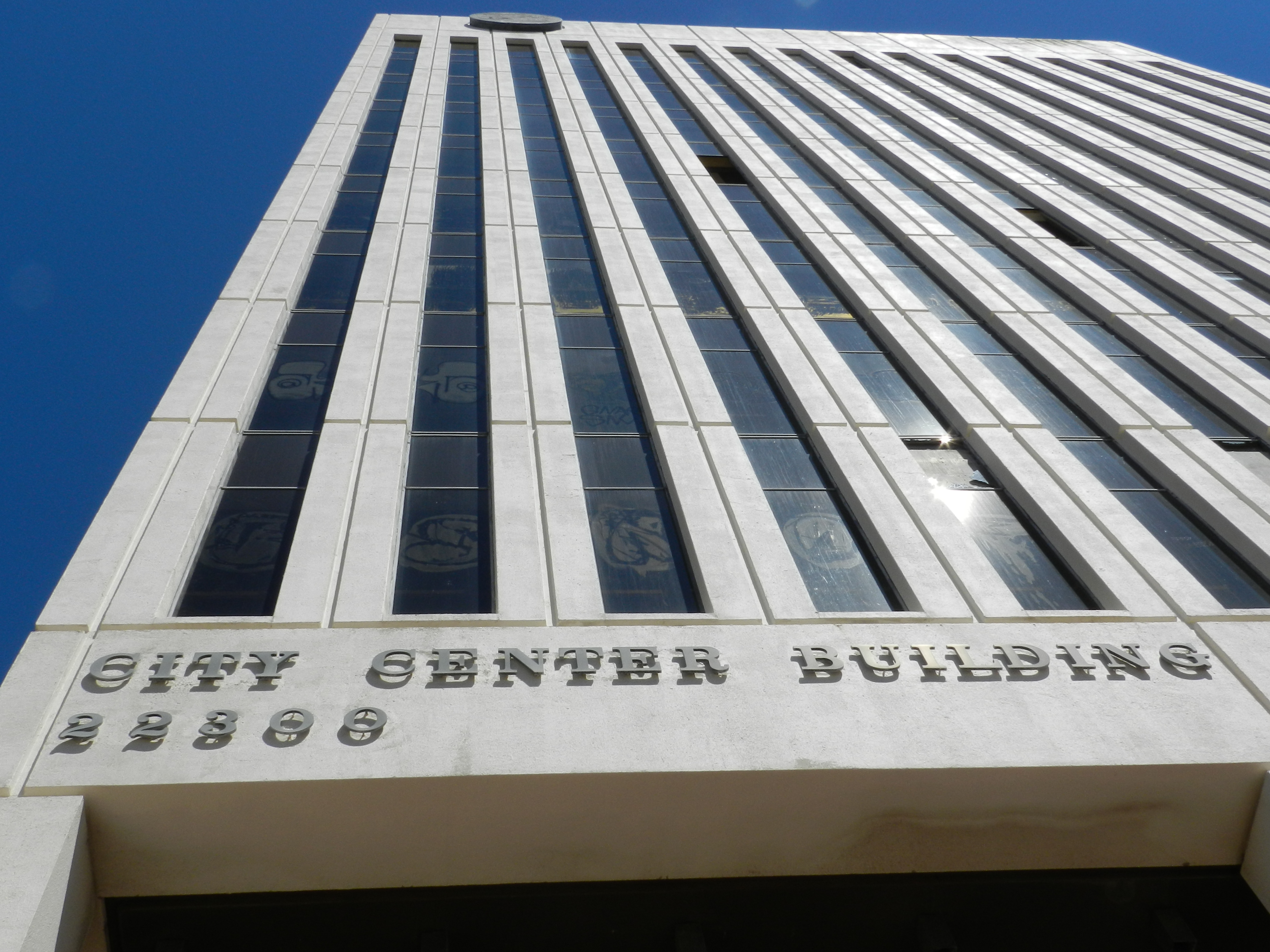 Old City Center Building (abandoned), Hayward, California